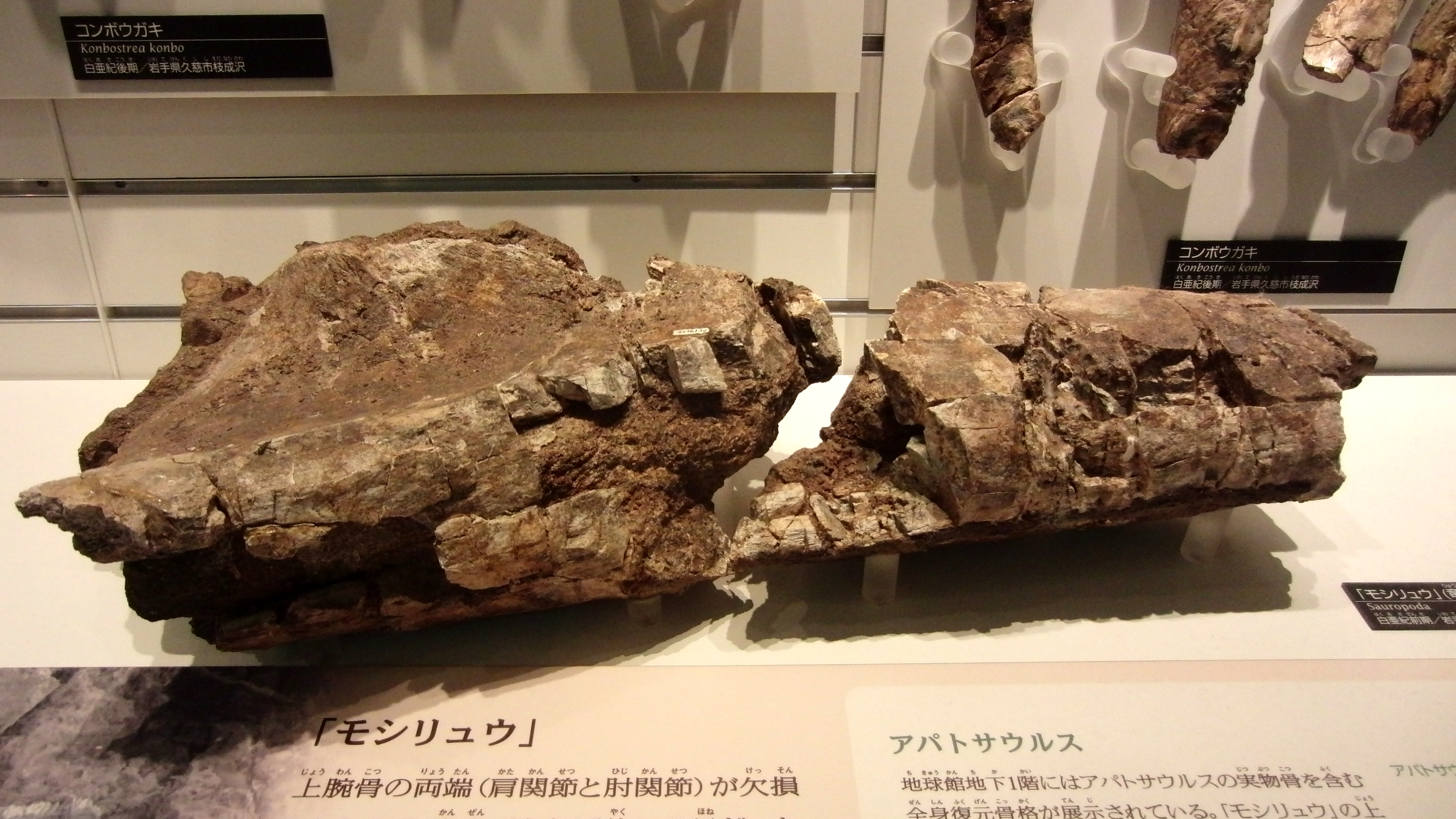 Fossil of indeterminate Sauropoda, Japanese name "Moshi-ryu". Exhibit in the National Museum of Nature and Science, Tokyo, Japan.